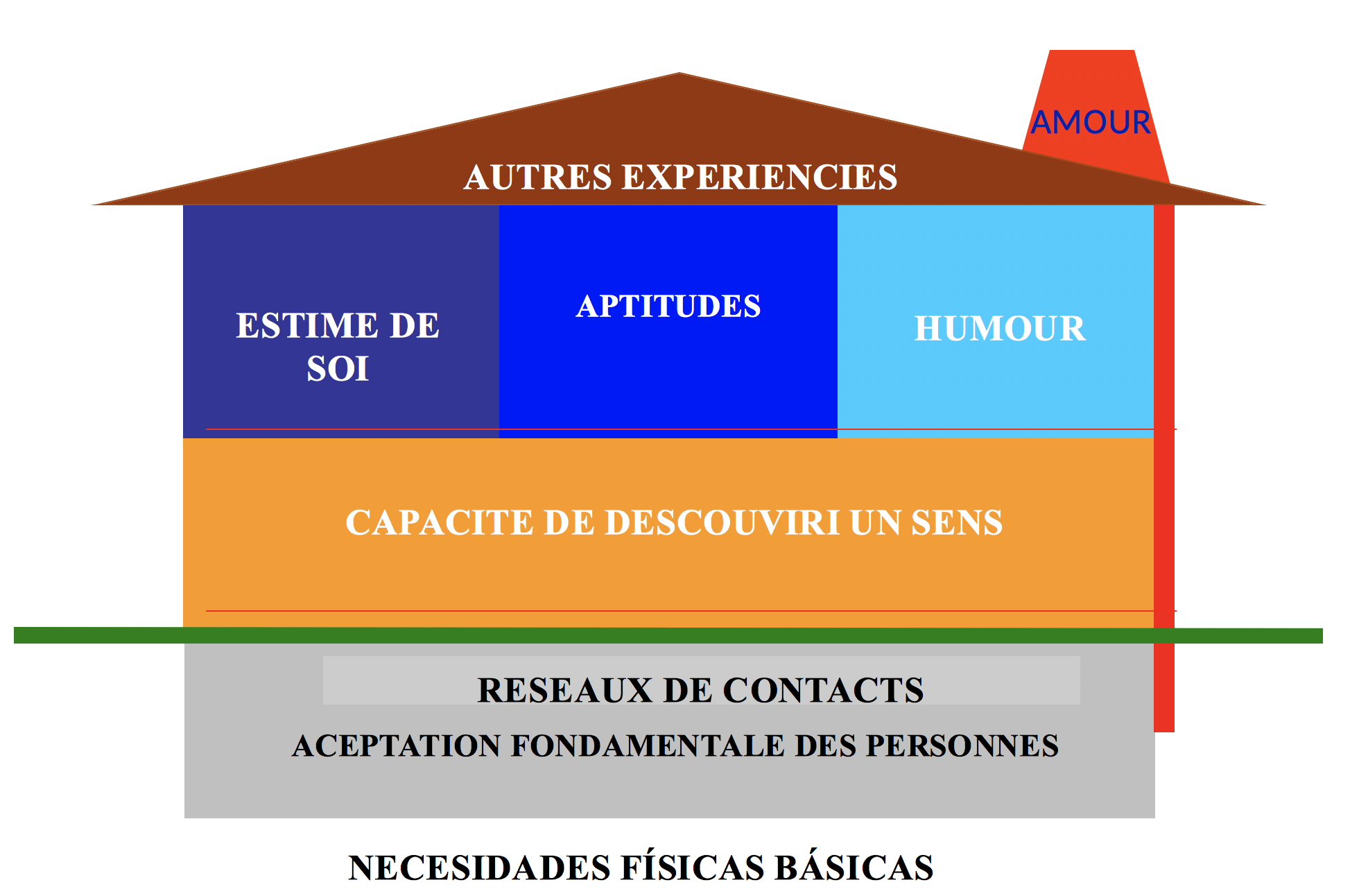 La casita de Stefan Vanistendael